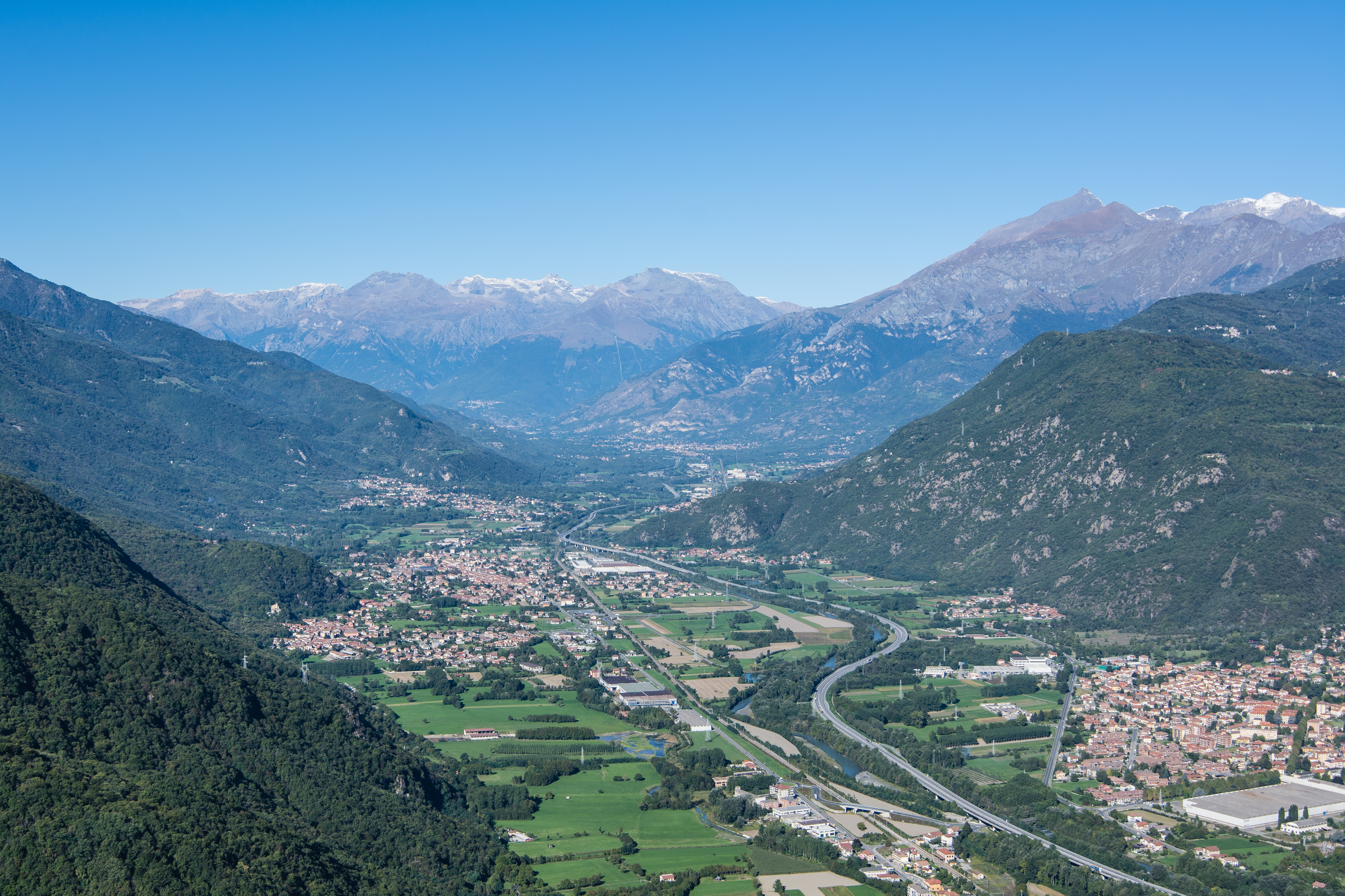 The mountain Rocciamelone (3538 m) dominates the Susa Valley (province of Turin) through which the Autostrada del Frejus leads to the tunnel of Frejus. The river Dora Riparia flows thtrough this valley. On the slope of Mont Giusalet (3312 m) the penstock of the hydroelectric powerplant of Venaus is visible.